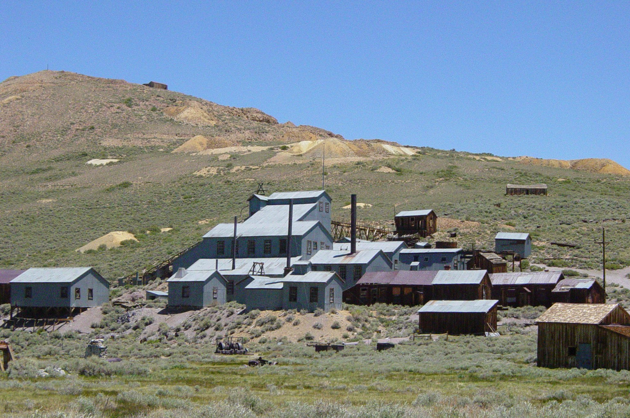 Photo taken in Bodie, California. See file name.